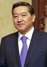 Serik Ahmetov, former Prime Minister of Kazakhstan.